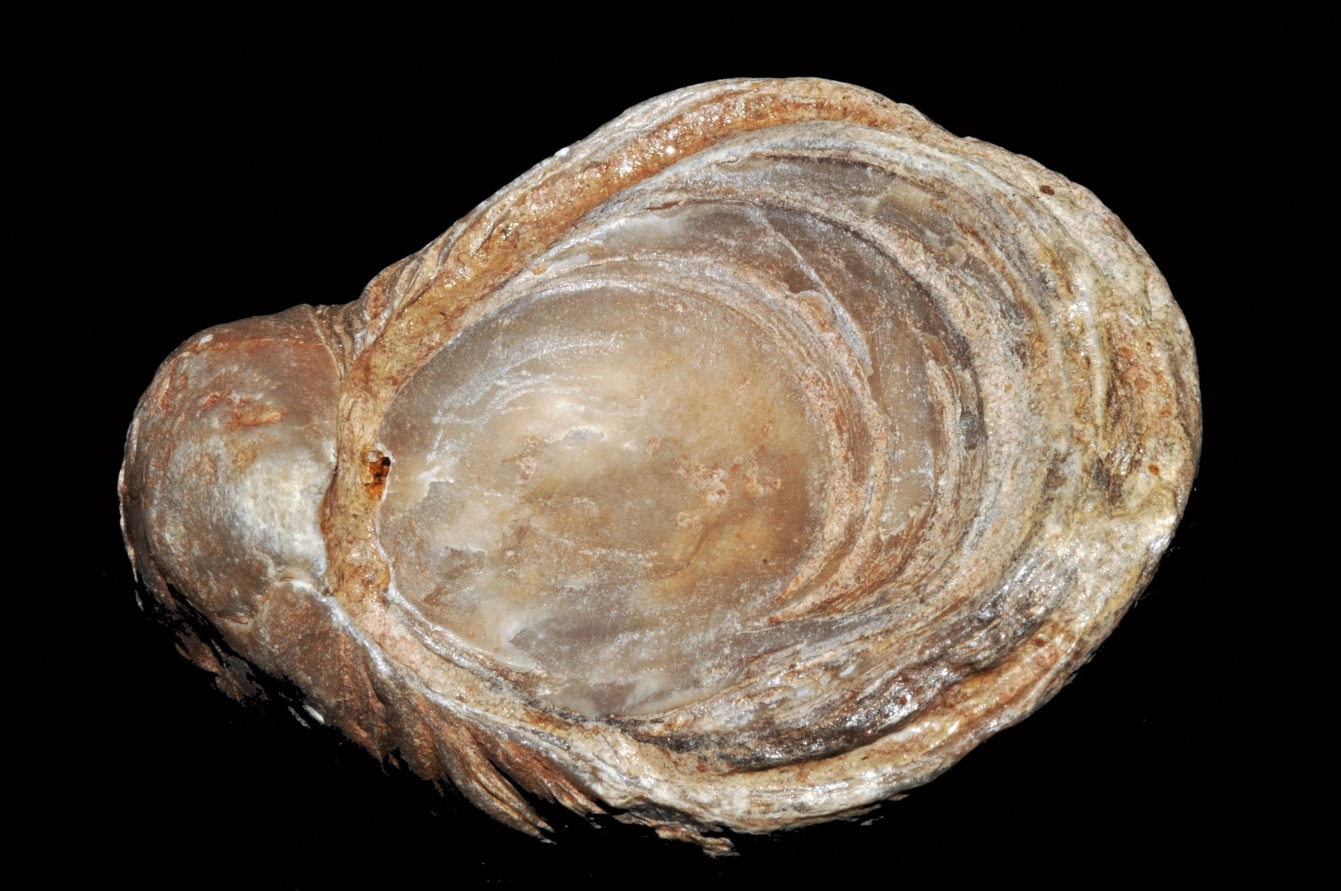 Gryphaea arcuata Lamarck, 1801 (France)